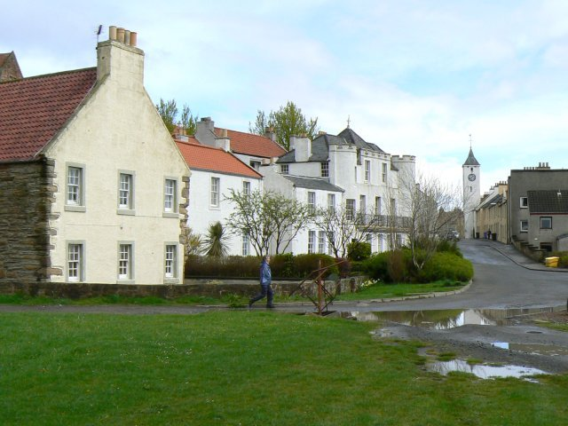 West Wemyss Approaching the village from the west, along the Fife Coastal Path.